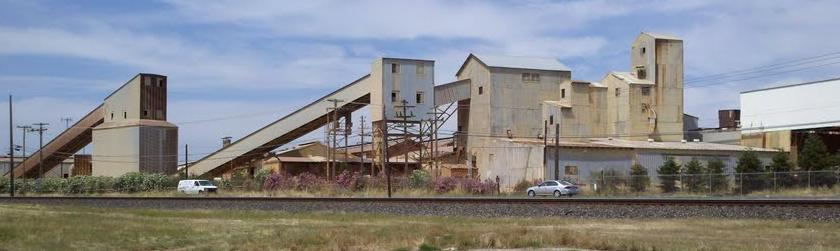 A panoramic view of the factory complex of ceramics manufacturer Gladding, McBean LLC, in Lincoln, Placer County, California.